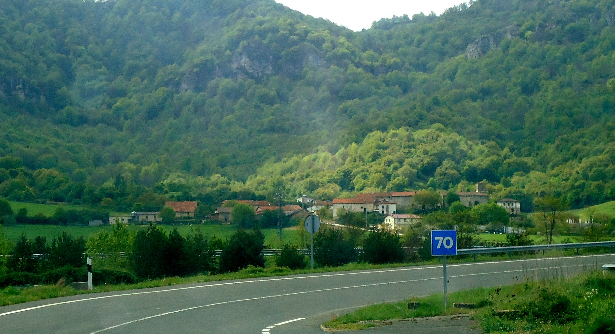 Andoin village (Asparrena, Araba, Basque Country)